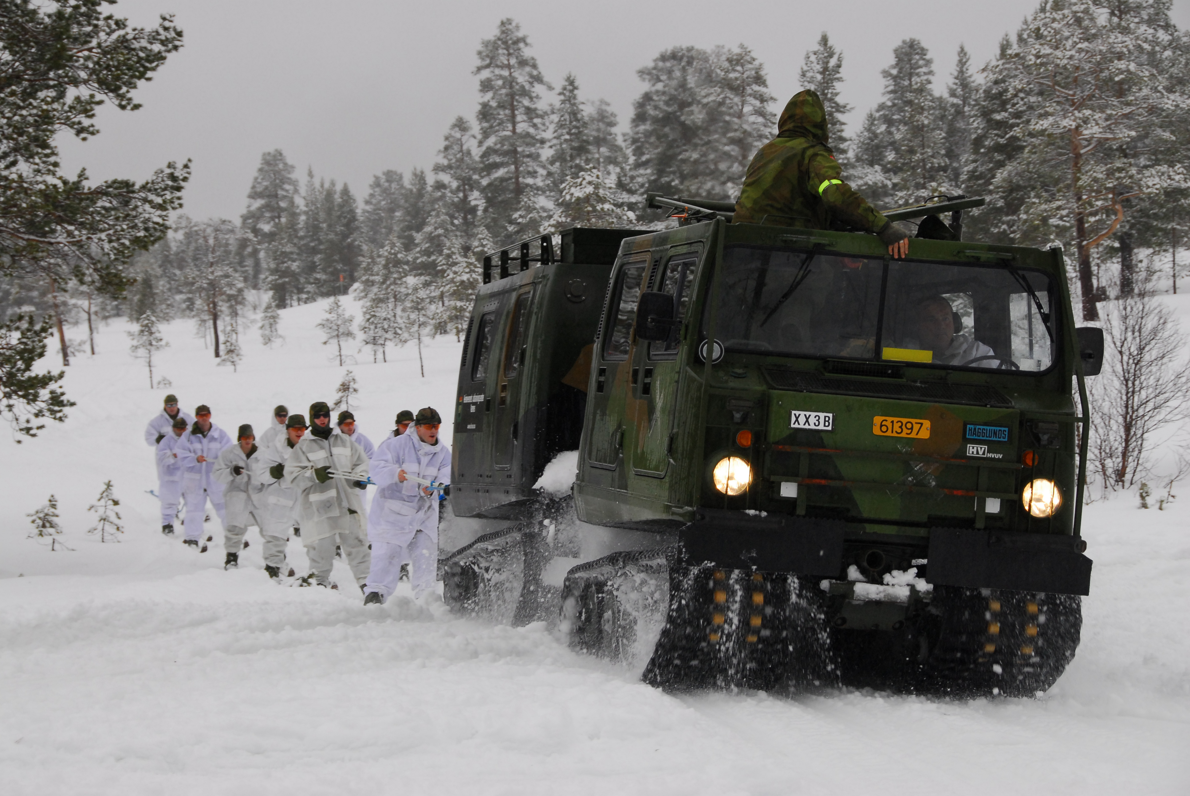 Minnesota National Guardsmen follow along behind a track vehicle as they conduct cold-weather training at Camp Værnes, Norway, on Feb. 18, 2008. The Guardsmen are participating in the 35th Annual U.S./Norwegian Troop Reciprocal Exchange which is a two-week winter training and a cultural exchange. DoD photo by Tech. Sgt. Jason Rolfe, U.S. Air Force. (